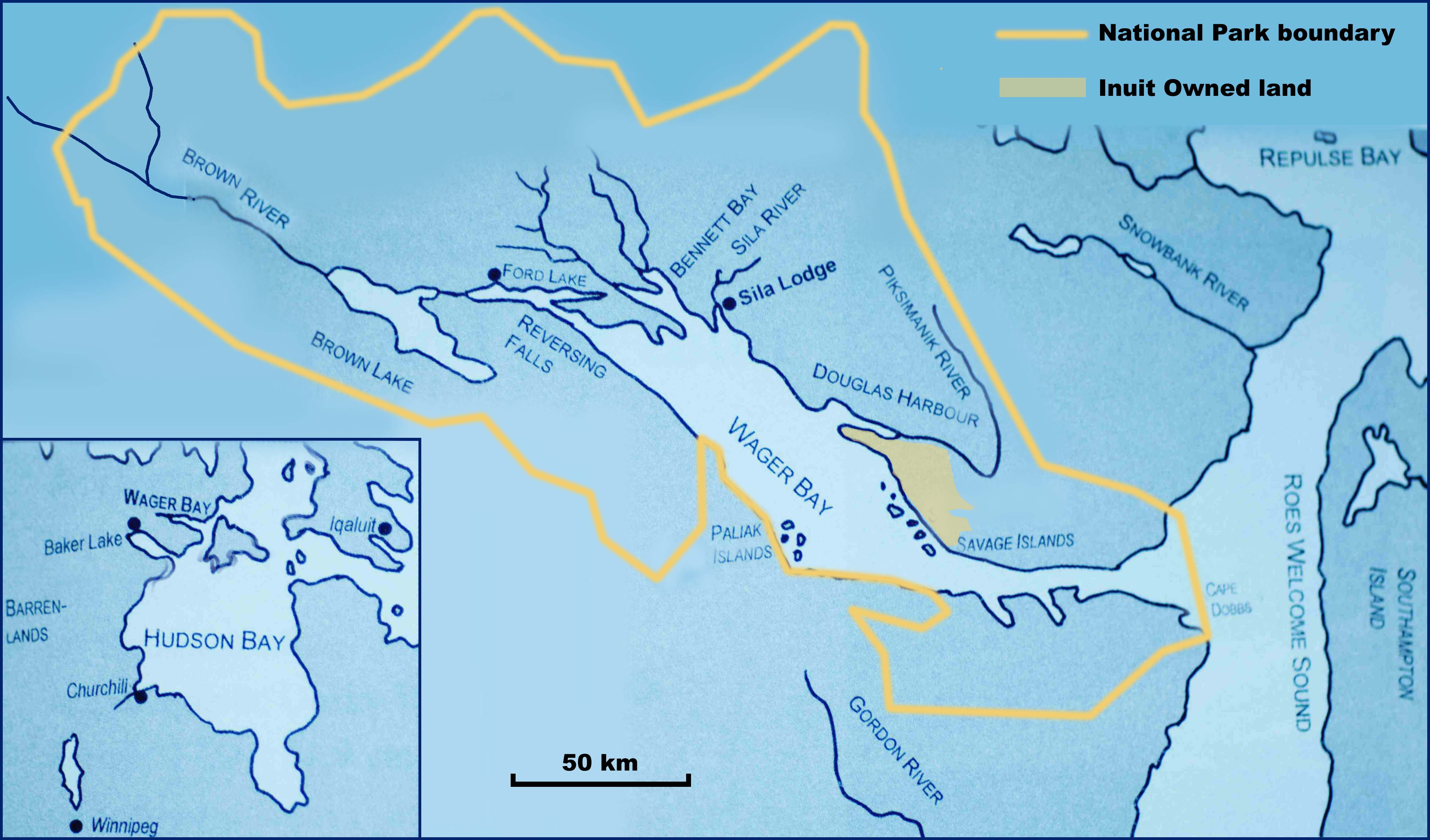 Ukkusiksalik National Park, Nunavut, Canada - self-drawed map (published in the author's book "Der Polarbaer kam spaet abends"); borderline drawn by User:W.H.Woe basing on